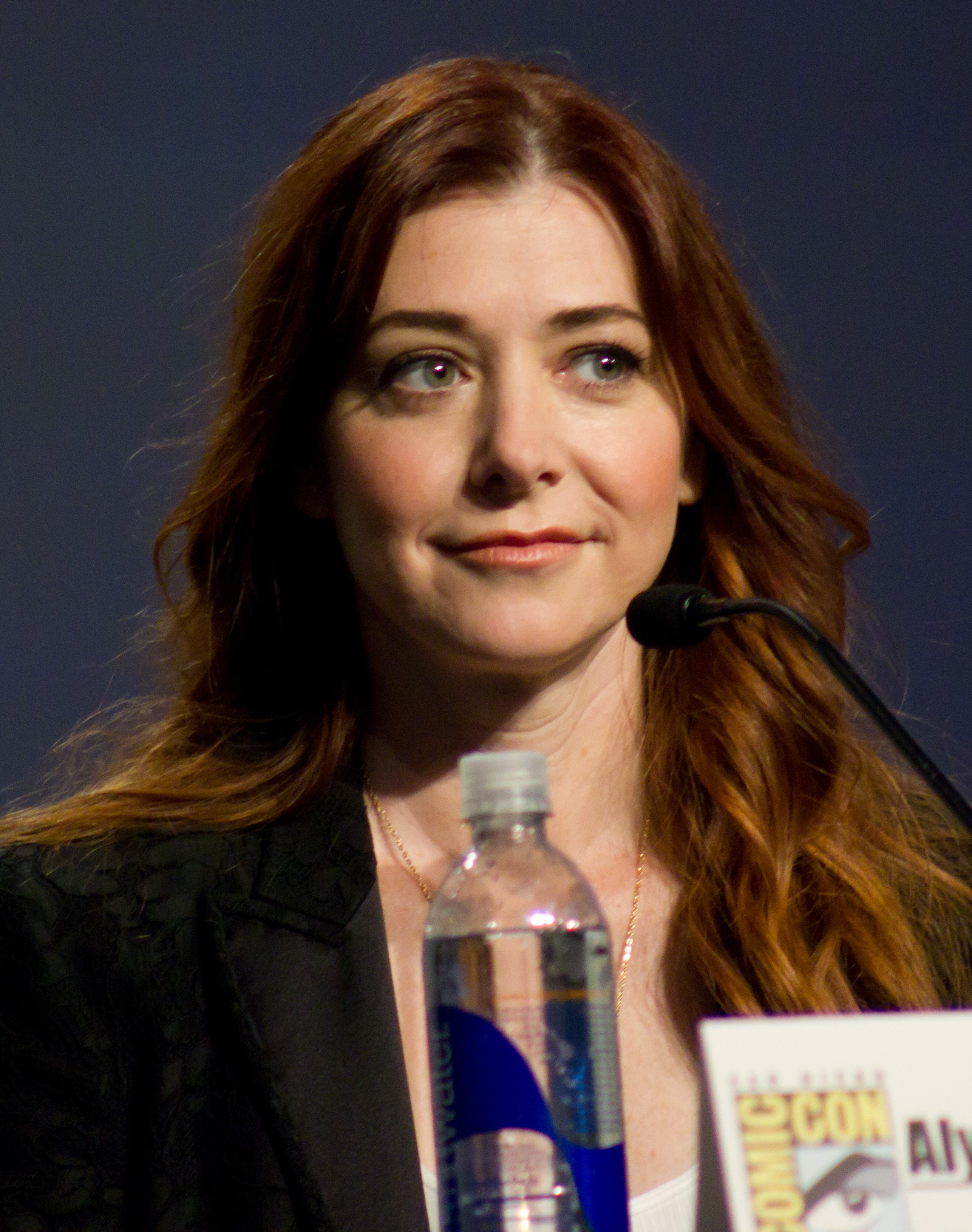 Alyson Hannigan at the 2013 San Diego Comic-Con International in San Diego, California.